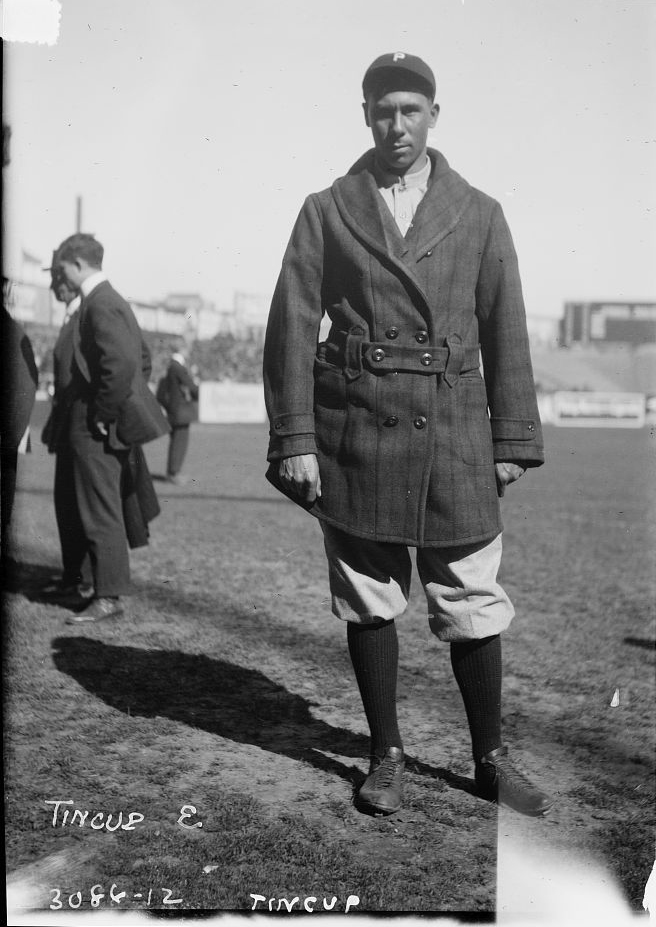 Native American baseball player Ben Tincup of the Philadelphia Phillies.